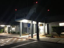 Chetumal International Airport Night view